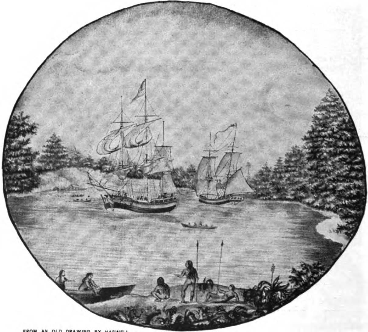 drawing of Columbia Rediviva and Lady Washington, by Robert Haswell